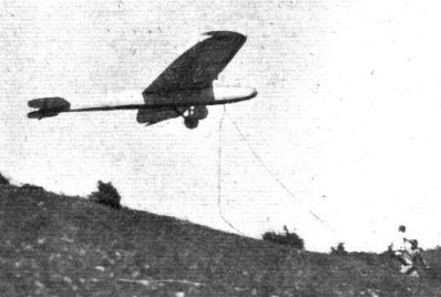 Daimler L.15 as glider